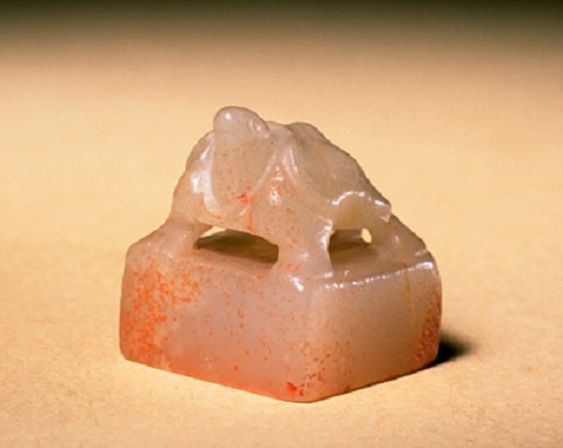 Governmental seal, Western Han Dynasty. Jade (material) Turtle (head of the seal)